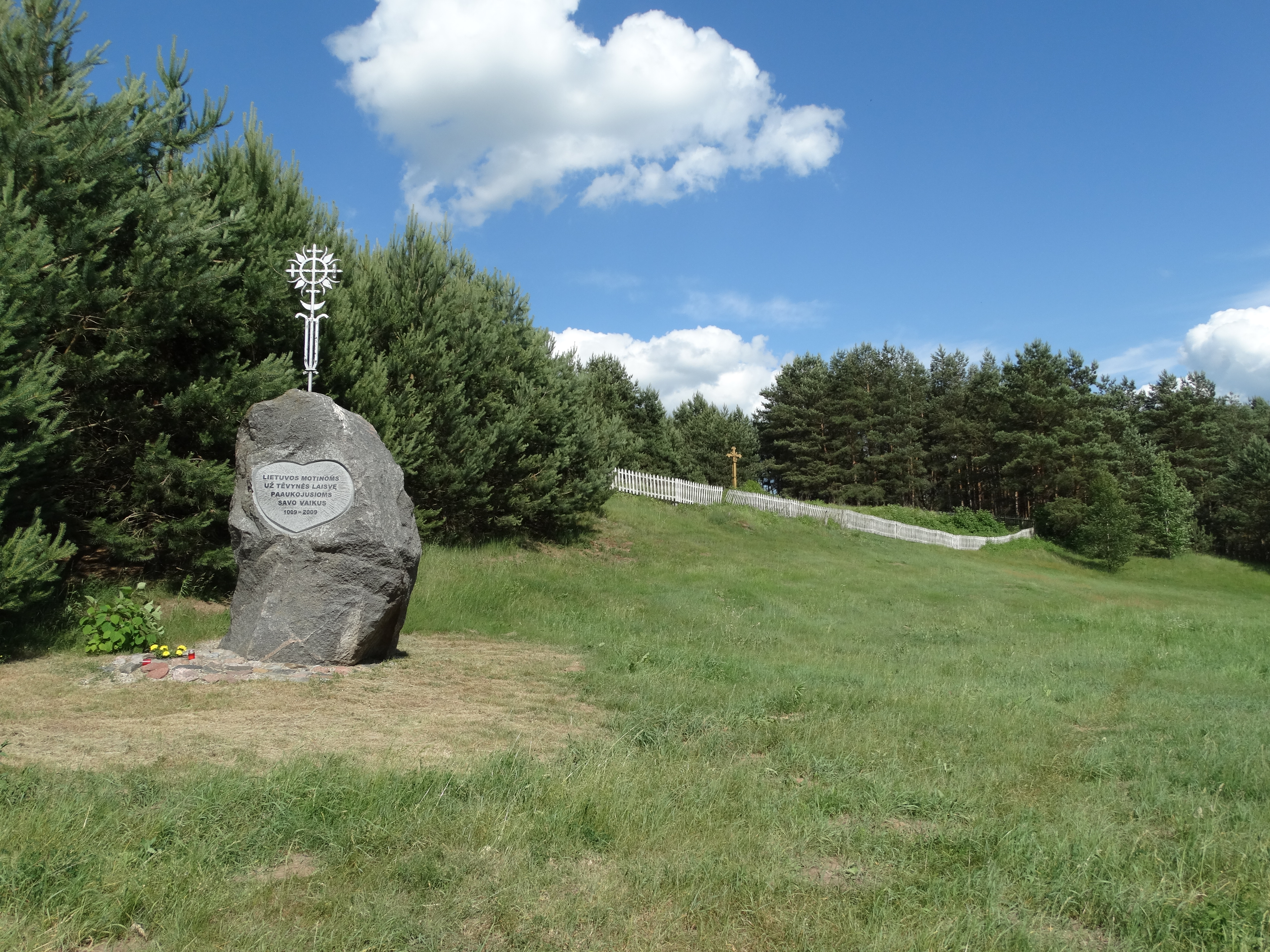 Park of partisans, Kadrėnai, Ukmergė district, Lithuania